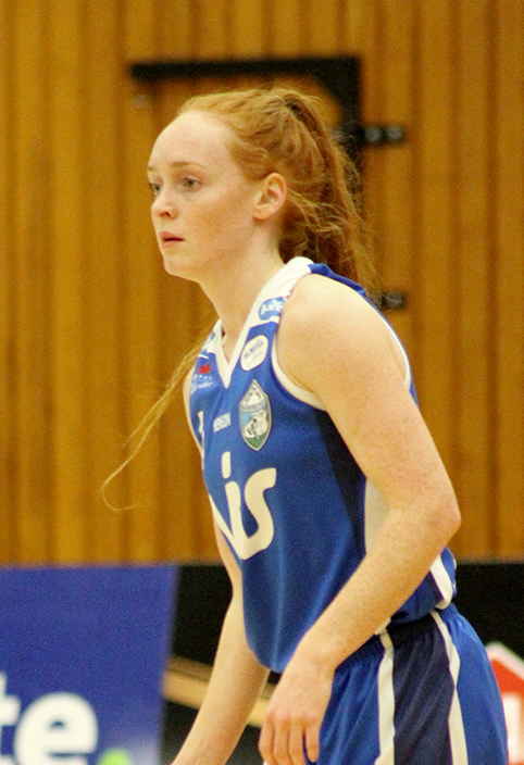 Hamar's Kristrún Rut Antonsdóttir in a game against Keflavík on 17 December 2014.